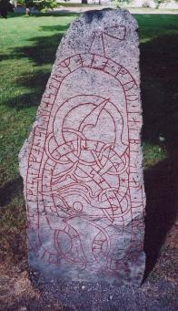 U 1011, one of the runestones standing in the University park in Uppsala, left side.